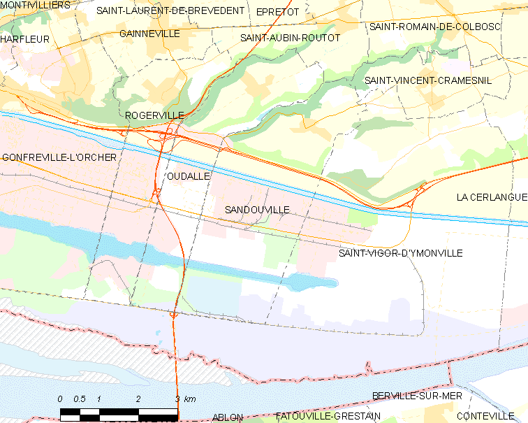 Map of French municipality Sandouville